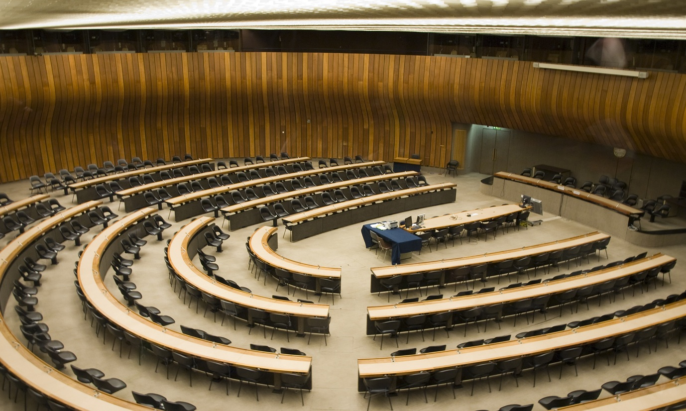 A Conference Room in Palace of Nations in Geneva